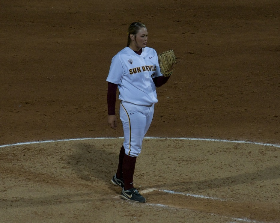 Arizona State pitcher Dallas Escobedo on May 25, 2013 during NCAA Softball Super Regionals against Kentucky.